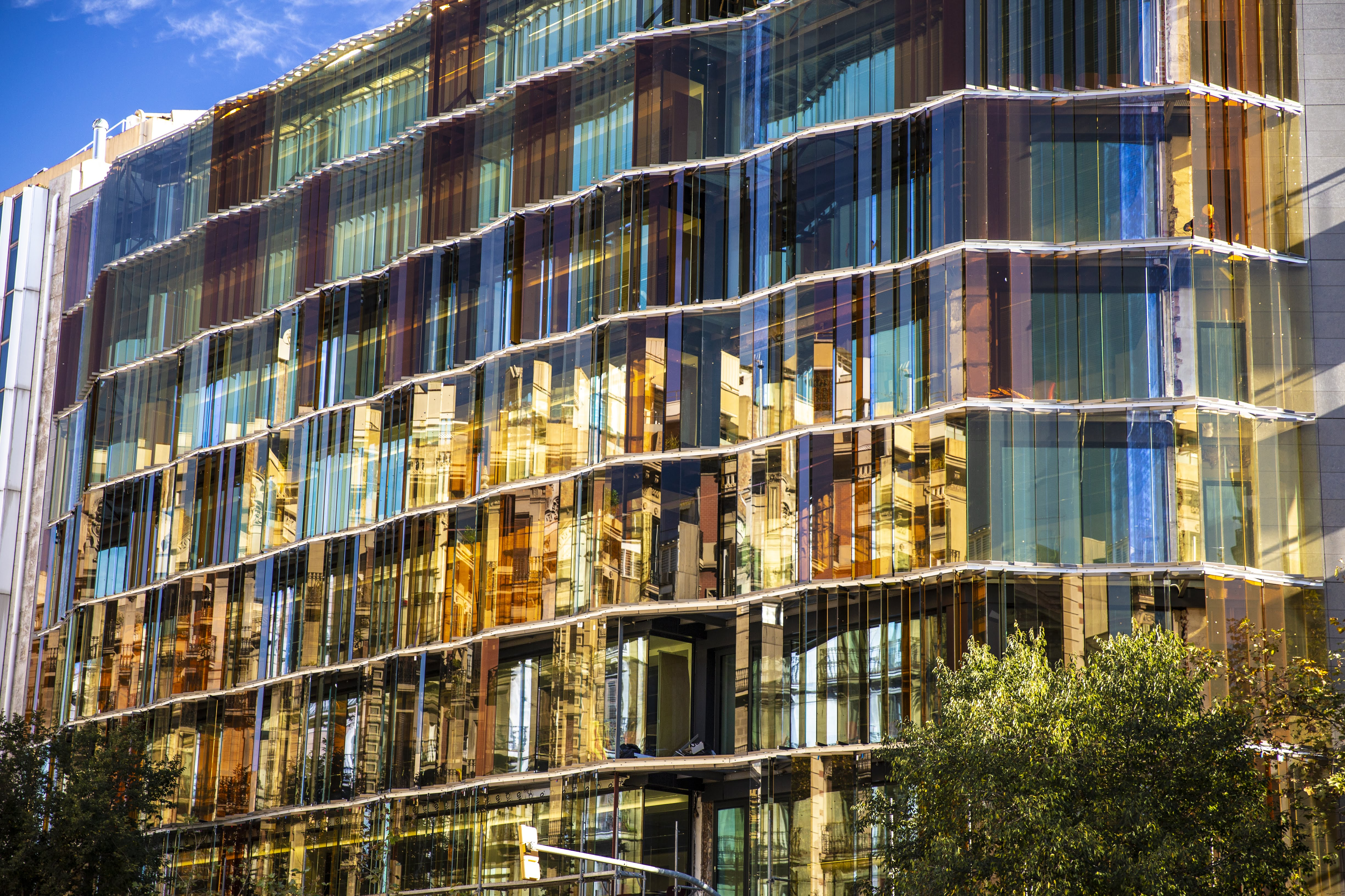 New building for EADA Business School.